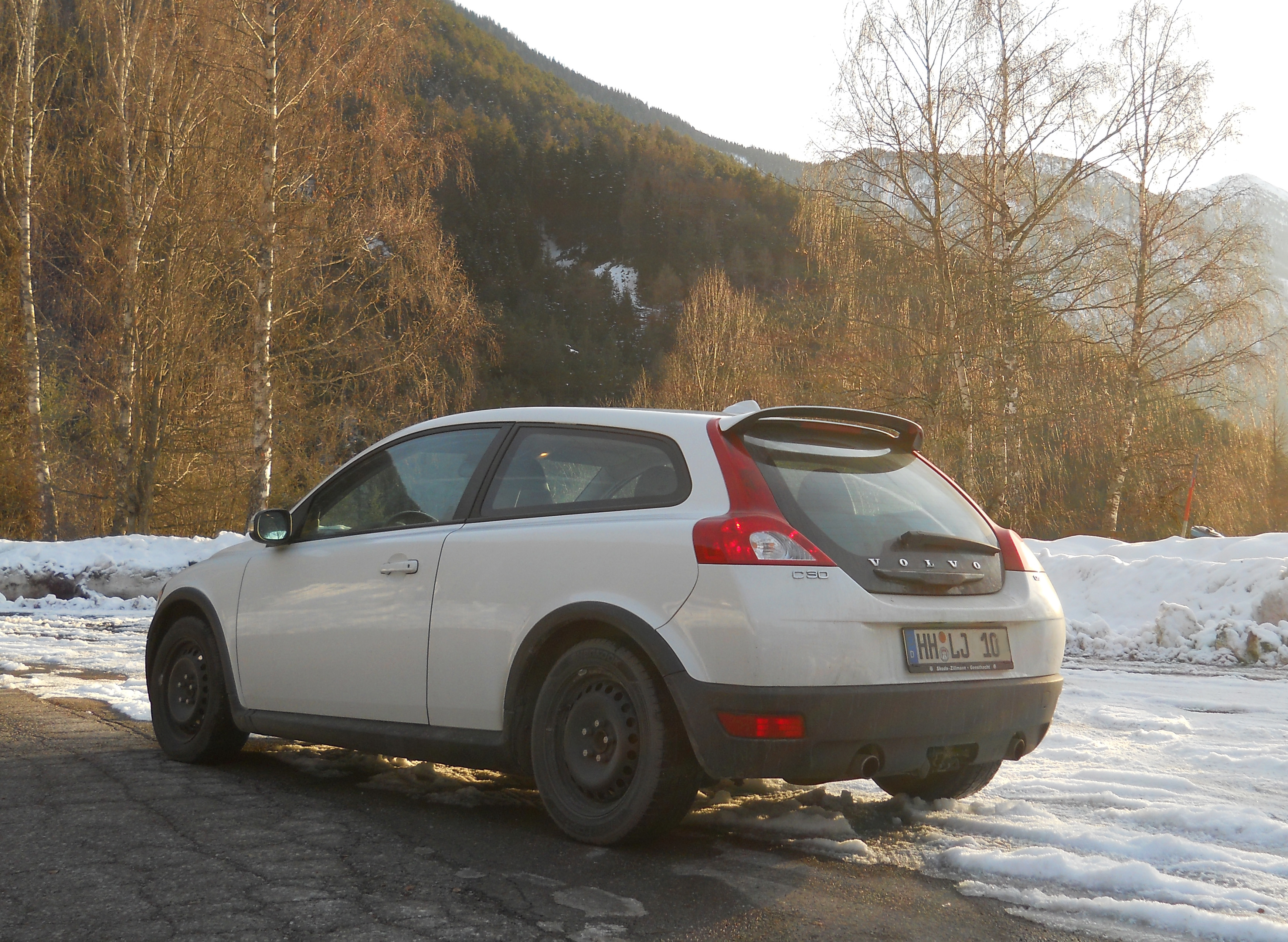 A 2008 Volvo C30 on the Fern Pass, rear view